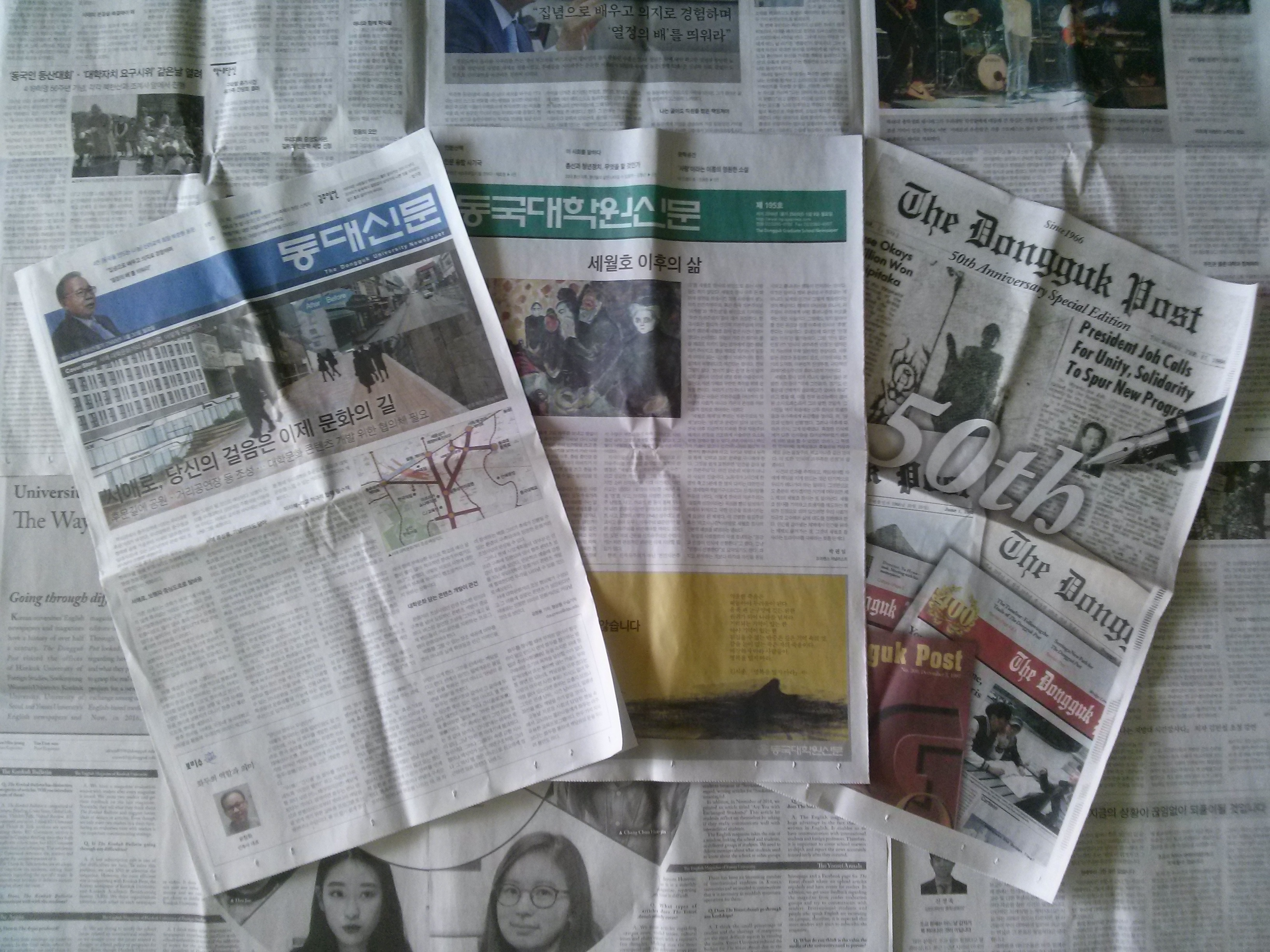 Newspapers published by Dongguk University.